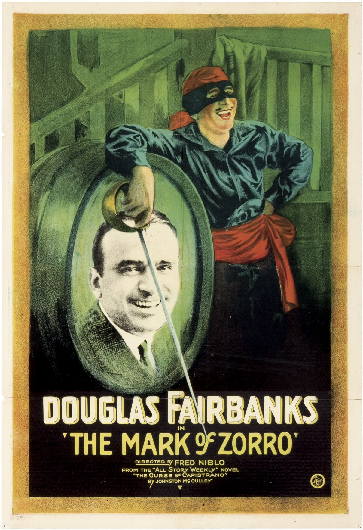 Movie poster for 1920 film The Mark of Zorro.